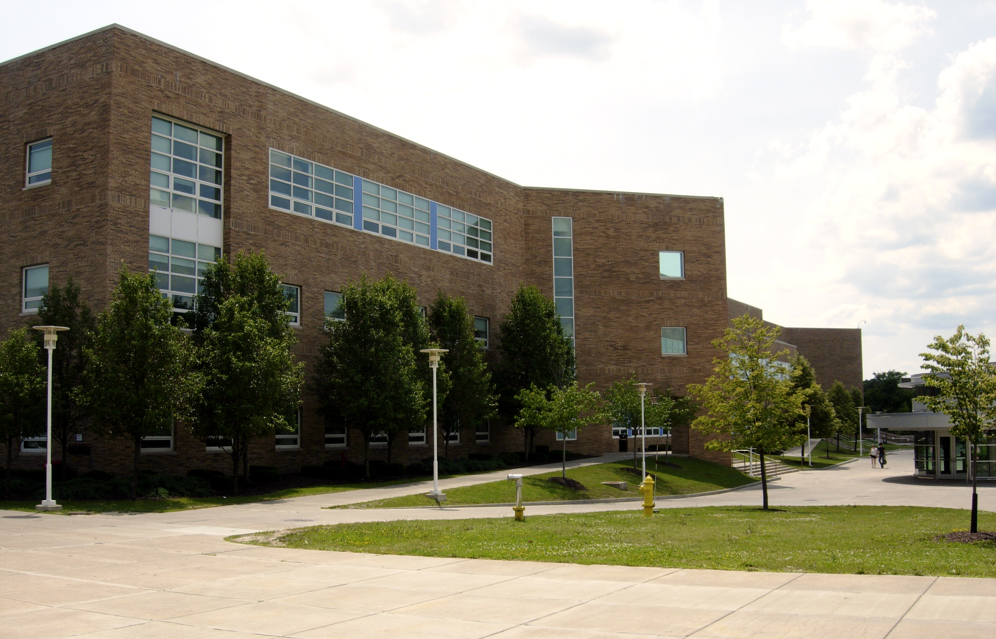 Whitney Applied Technology Center, Onondaga Community College